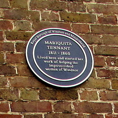 Mariquita Tennant plaque, Clewer Village, Windsor